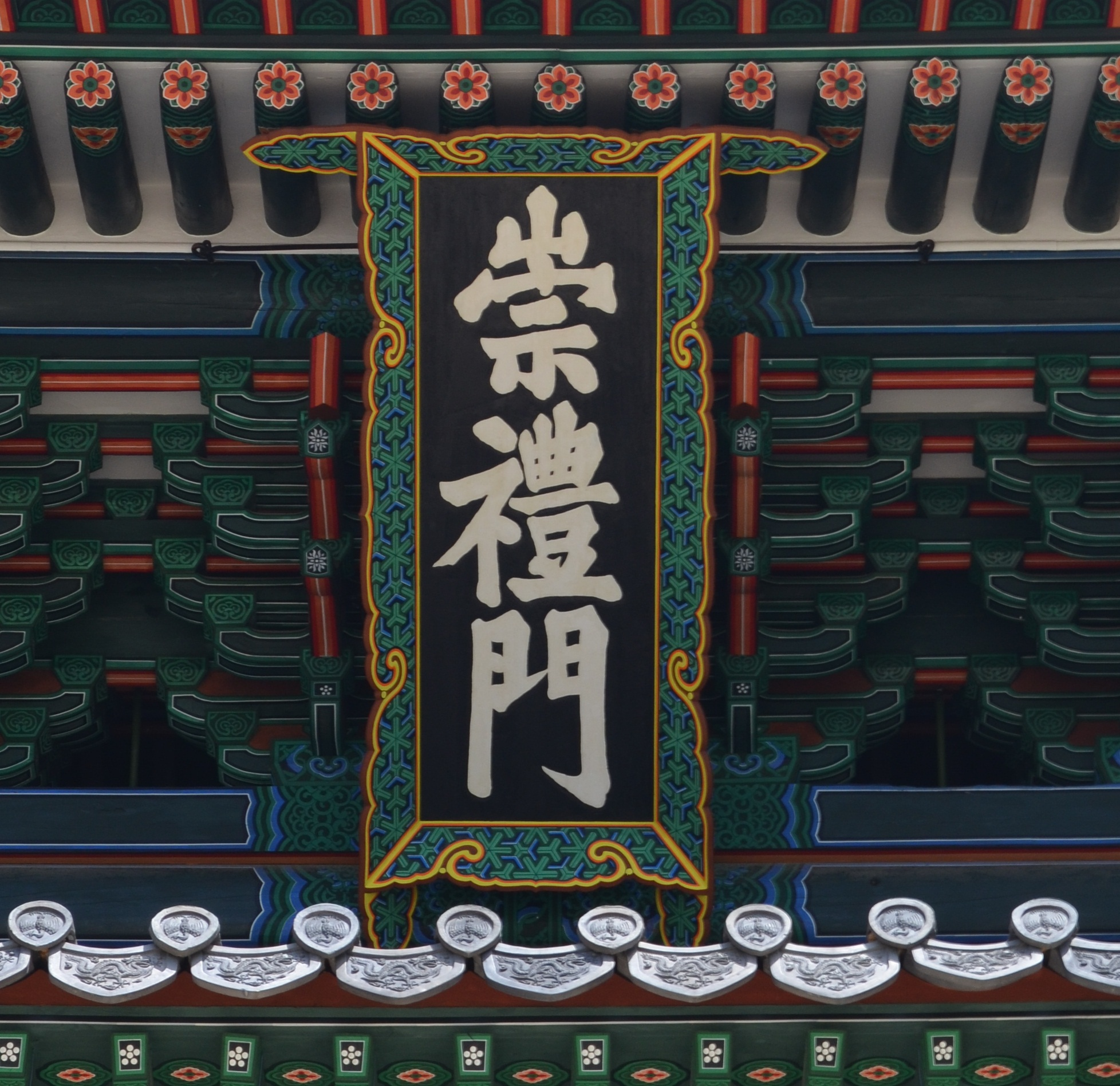 Signboard of Sungnyemun Gate, Seoul, South Korea. Sukjeongmun is also known as Namdaemun, or South Gate. Signboard was photographed May 21, 2013.